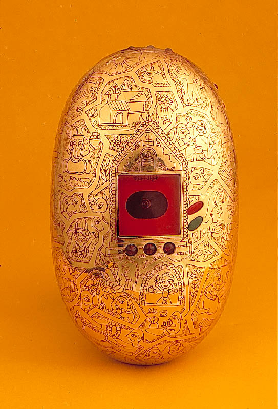 One of the first wireless touch based interactive device that allows people to wirelessly access multimedia content on Banaras, designed by Ranjit Makkuni.